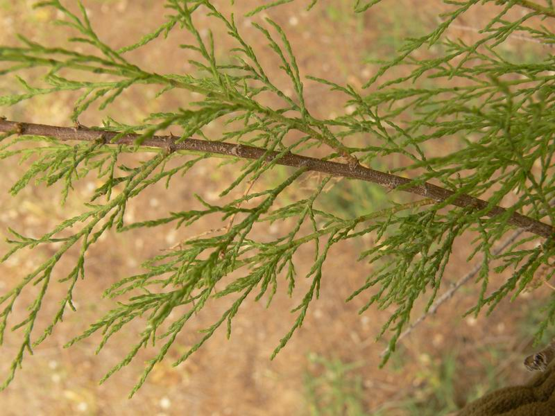 Branch of Tamarix nilotica (the Nile tamarisk) at Lake Hula in northern Israel